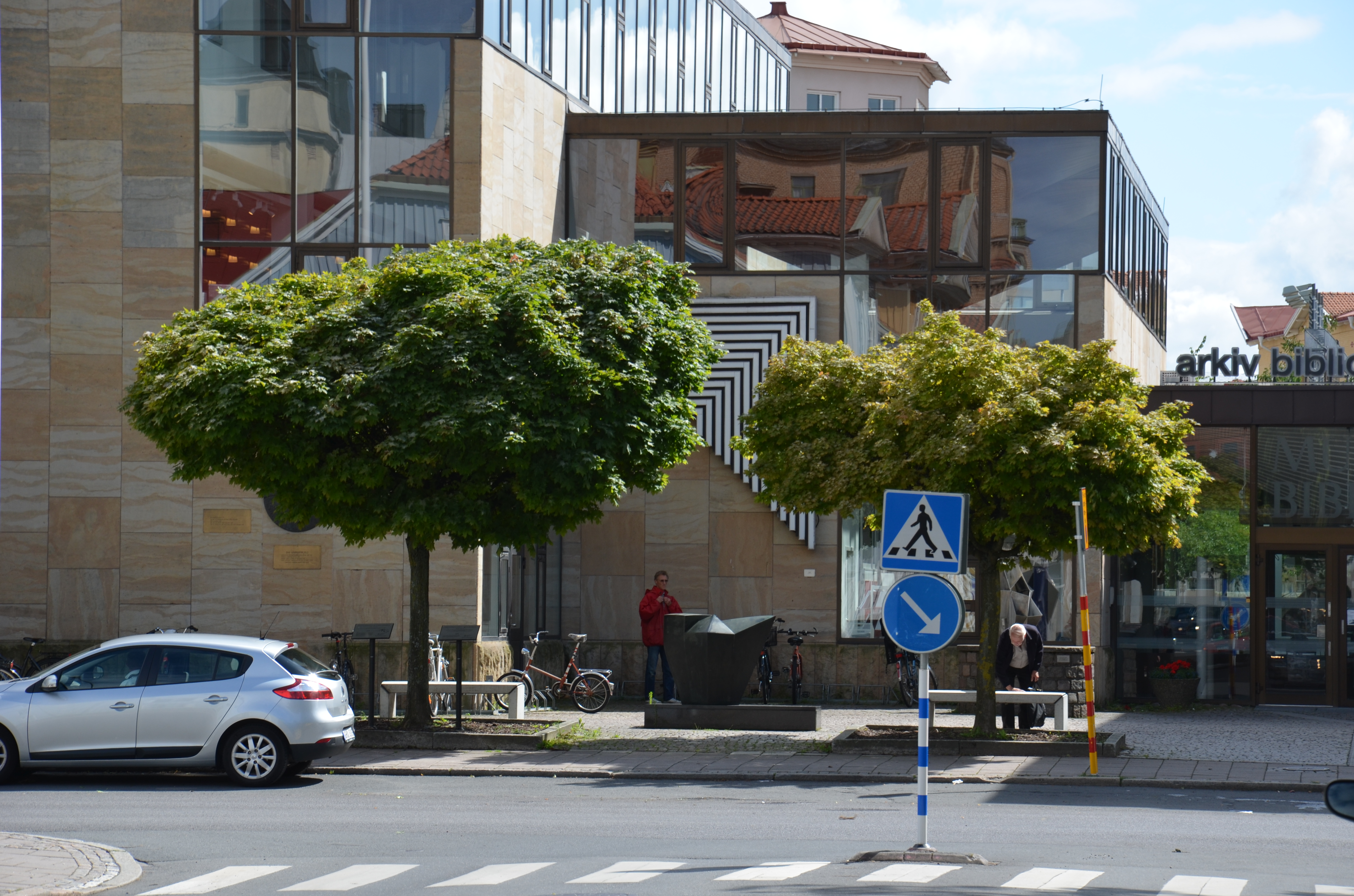 Jönköpings stadsbibliotek. Väggskulptur av Per-Olof Ultvedt (Hundöra). Fristående skulptur av Emile Gilioli (Hommage à Dag Hammarskiöld)